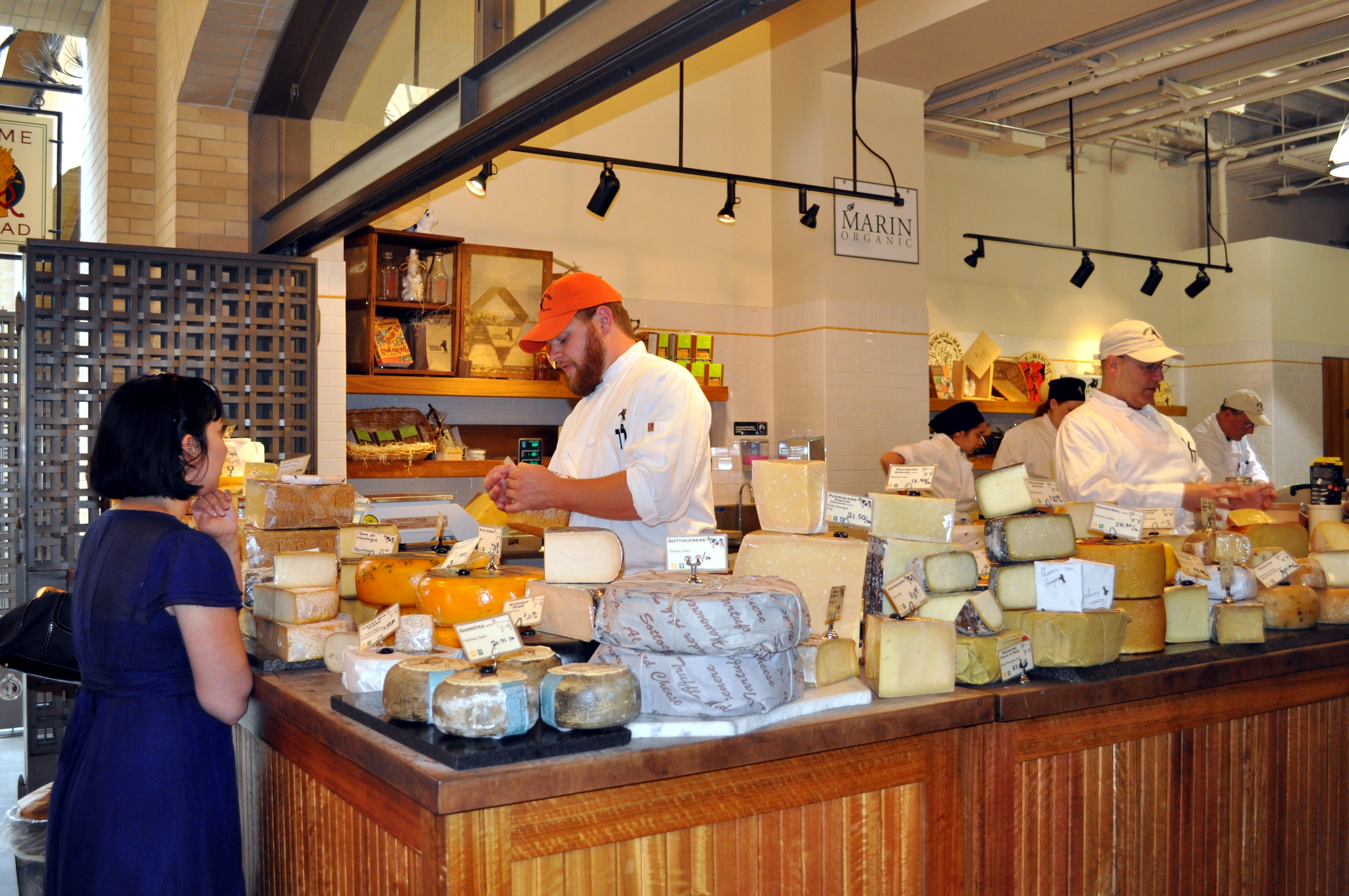 Cowgirl Creamery, Ferry Building, San Francisco, California, USA.